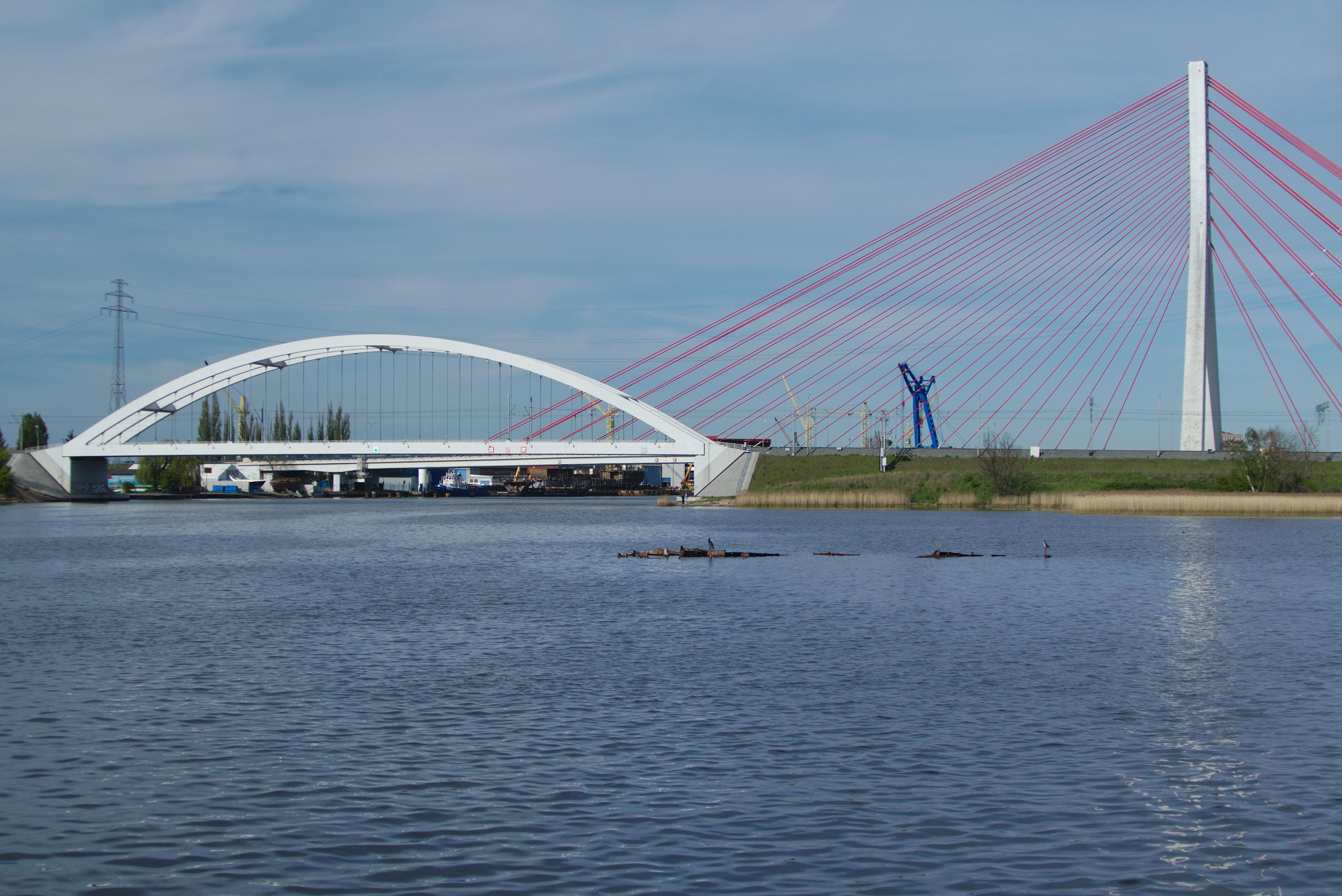 Railway brigde over Martwa Wisła river on railway line number 226 in Gdańsk, Poland. John Paul 2nd cable-stayed bridge can be seen in the background; 2 cormorant in the foreground.